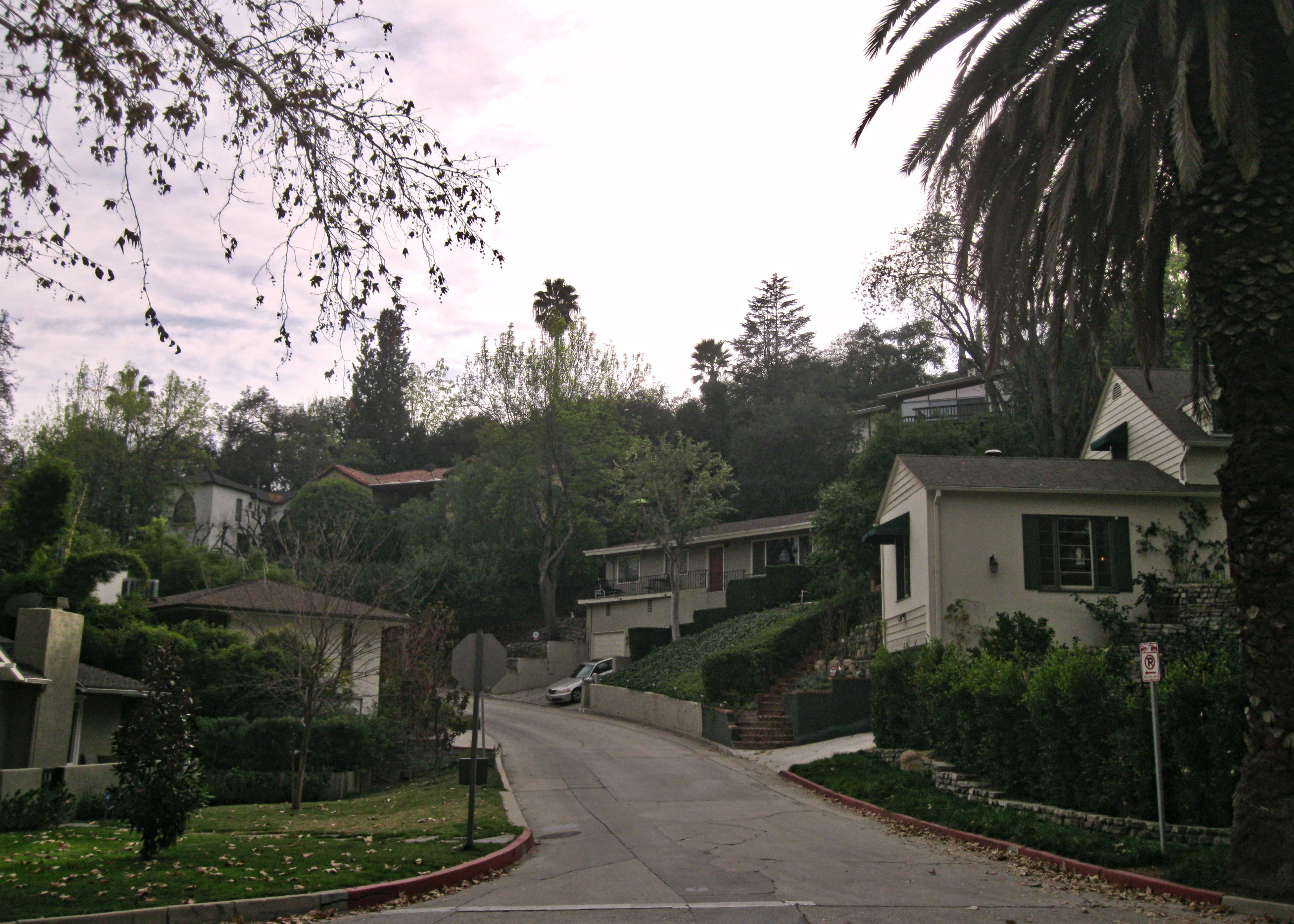 The foot of Poppy Peak Drive in Pasadena, California. The homes along the drive form part of the Poppy Peak Historic District, which is listed on the National Register of Historic Places